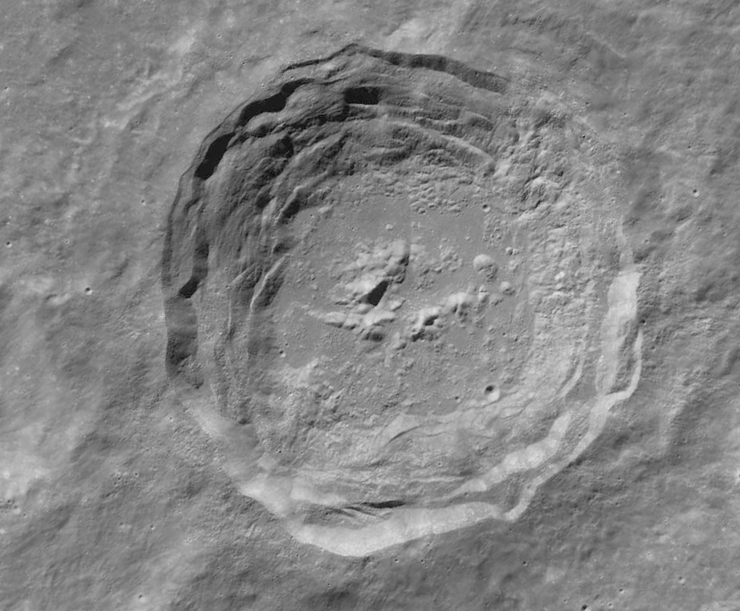 Crater Zucchius (detail of LRO - WAC global moon mosaic; Orthographic projection; North up)